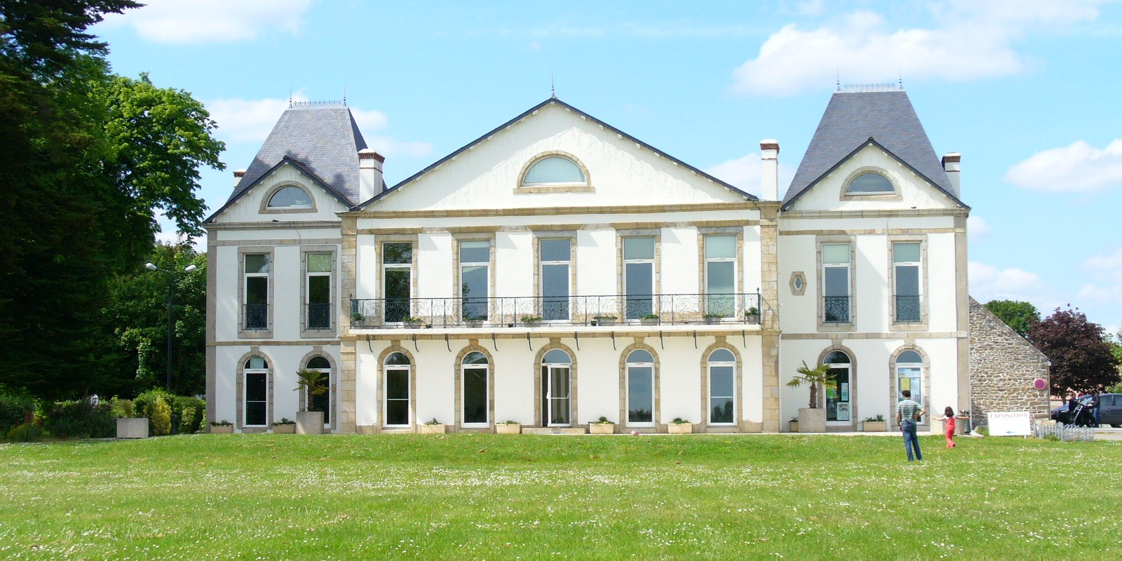 Riantec, Château de Kerdurand